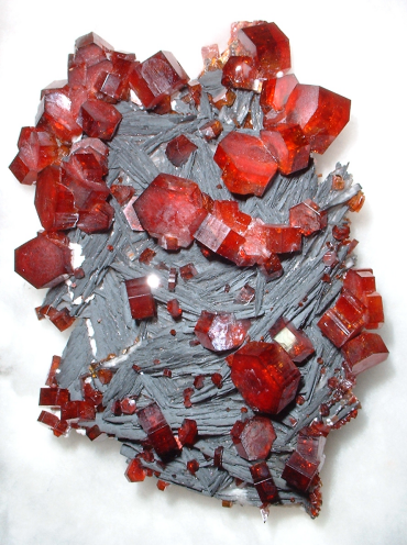 Vanadinite specimen